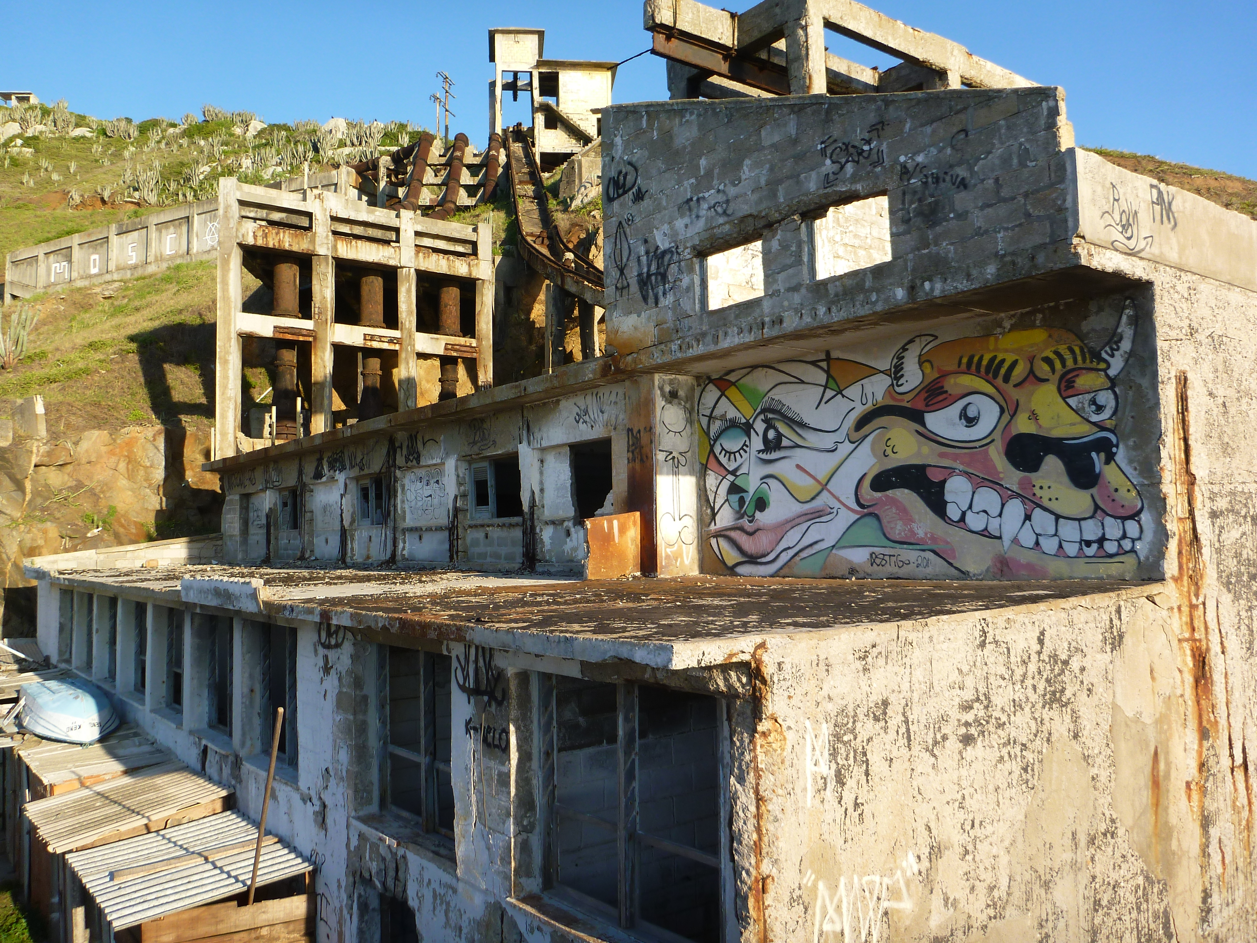 Ruins of former industrienn production in Arraial do Cabo